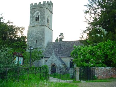 Picture taken by Mark Morris, on 16th May 2006. Feel free to copy and/or distribute this image.